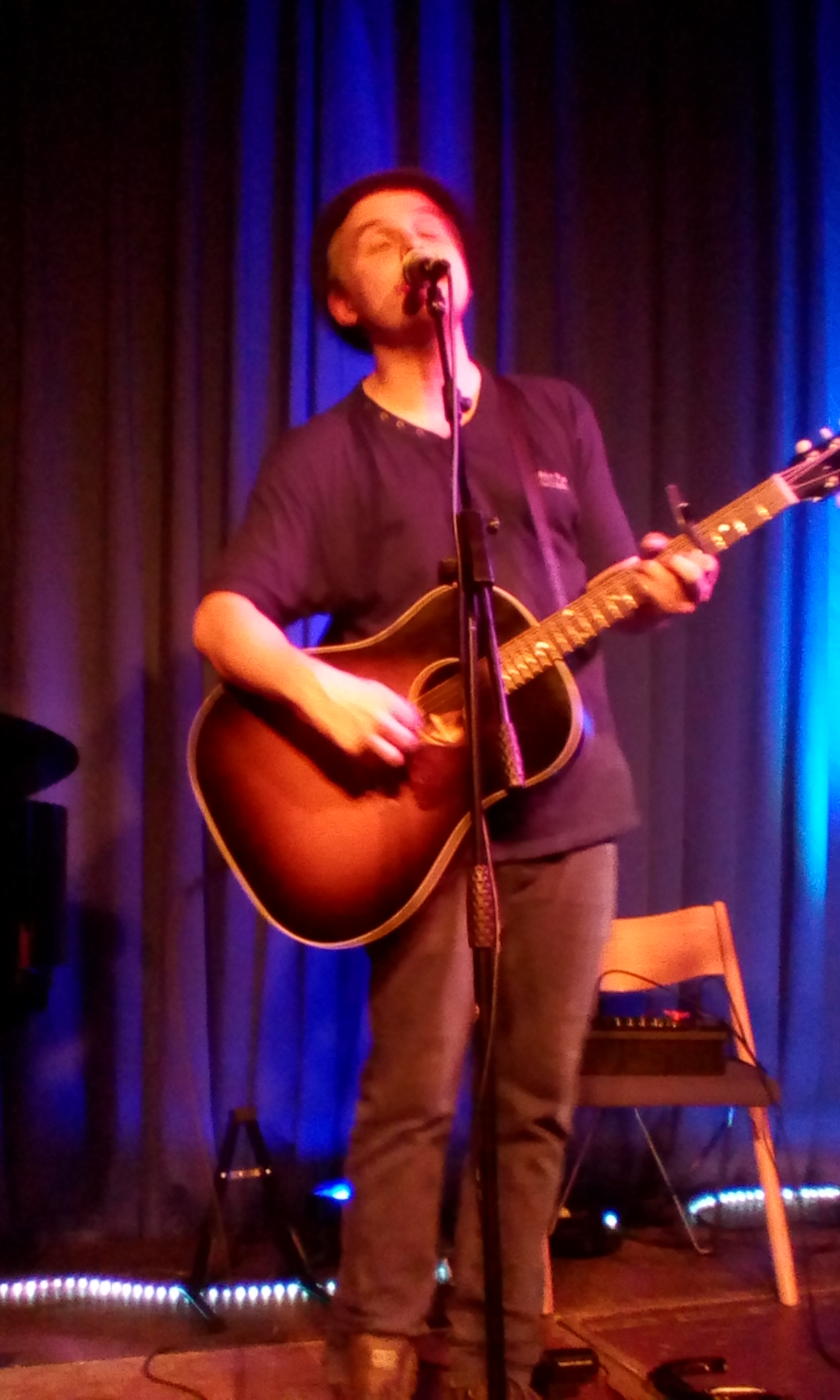 Sean Taylor performing in Erkelenz, Germany